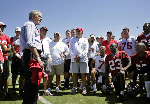 President George W. Bush talks with members of the Tampa Bay Buccaneers during his visit to the NFL team's training facility in Tampa, Fla., Thursday, Sept. 21, 2006. White House photo by Paul Morse